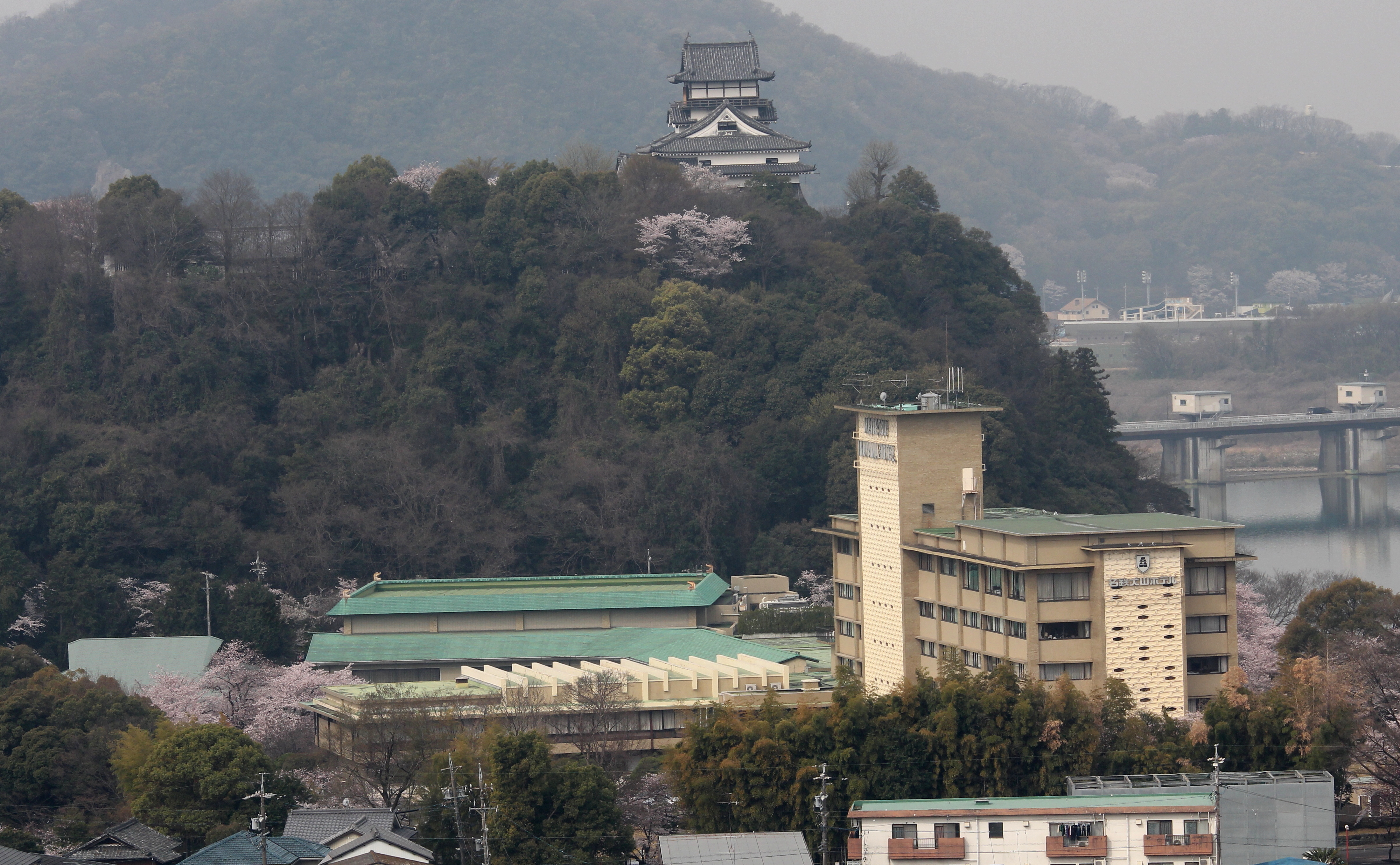 Meitetsu Inuyama Hotel and Inuyama Castle in Inuyama, Aichi prefecture, Japan.